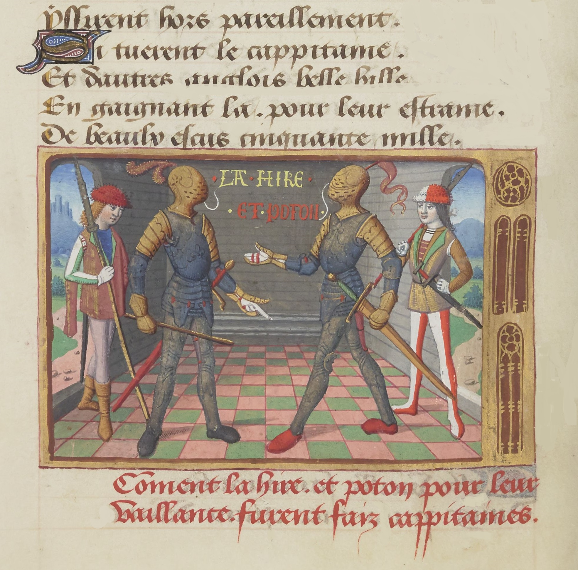 Jean Poton de Xaintrailles and Étienne de Vignolles, dit La Hire from a 15th century manuscript. Captains under Jeanne d'Arc, Estienne & Poton de Xaintrailles. Miniature from the Vigiles du roi Charles VII.